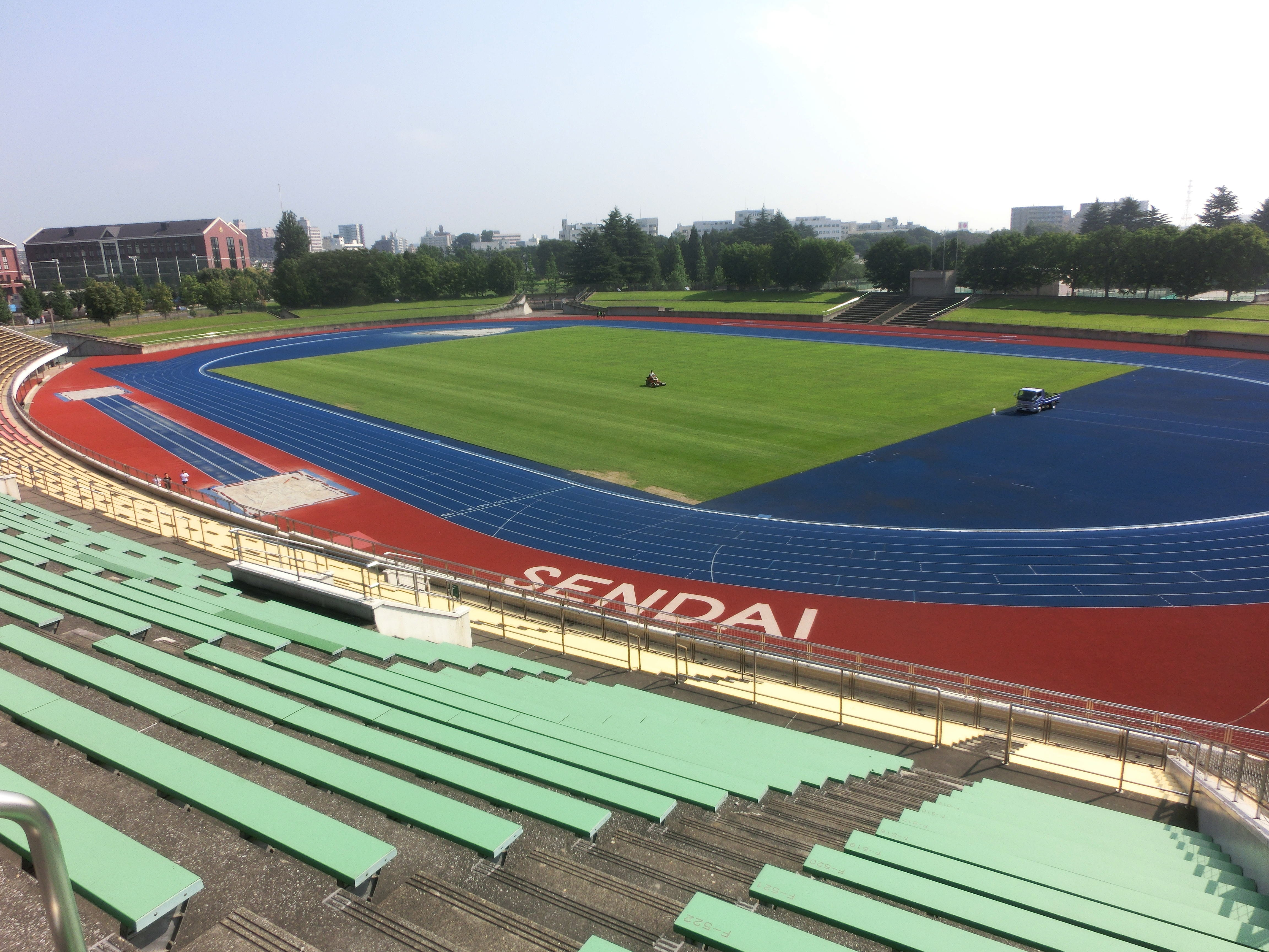 Sendai Athletic Field